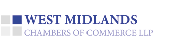 The official logo of the West Midlands Chambers of Commerce